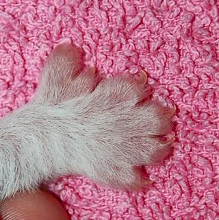 Preaxial polydactyly. Hemingway mutant. Right forehand